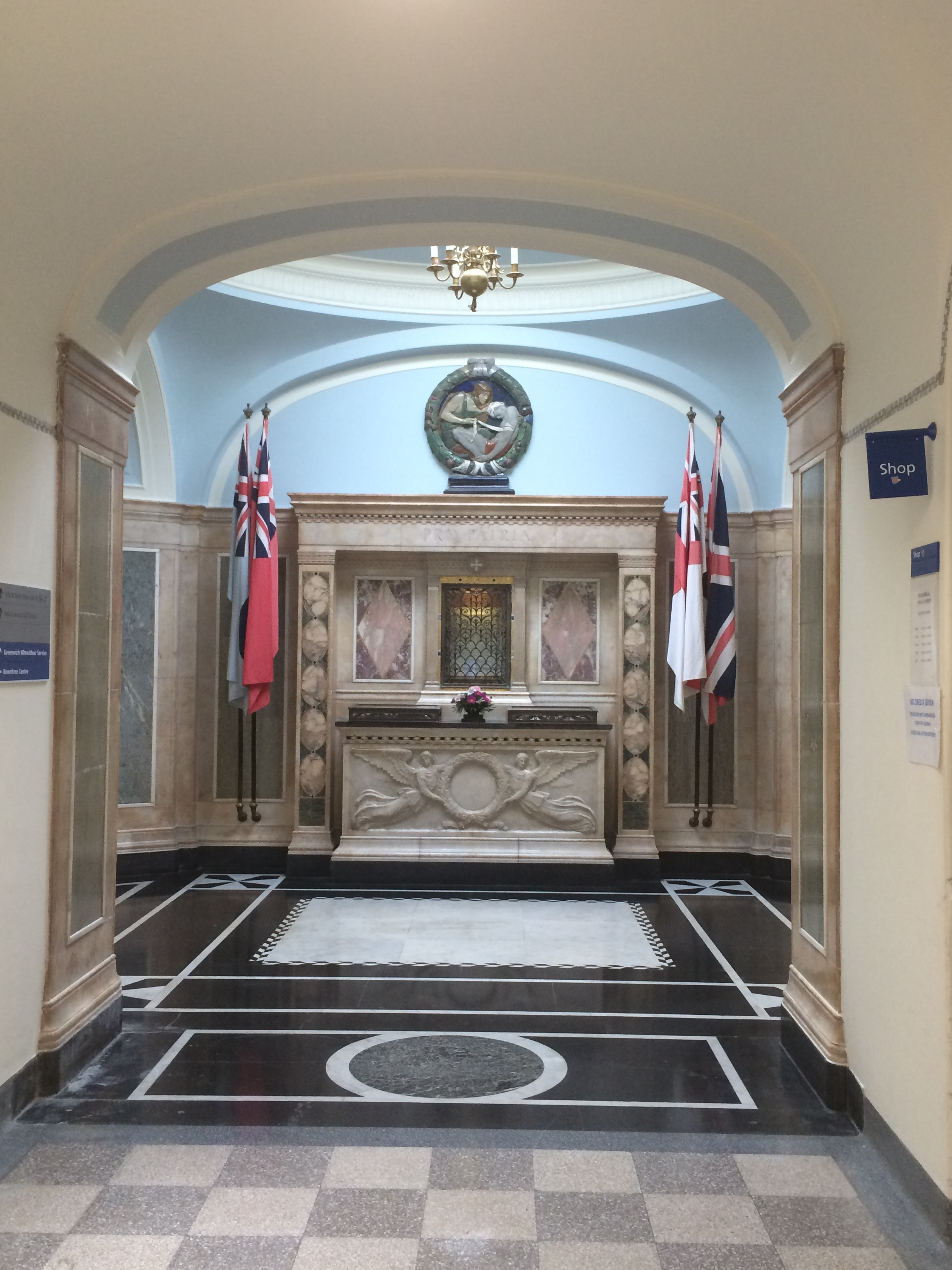 The memorial in the centre of Memorial Hospital, Woolwich, London